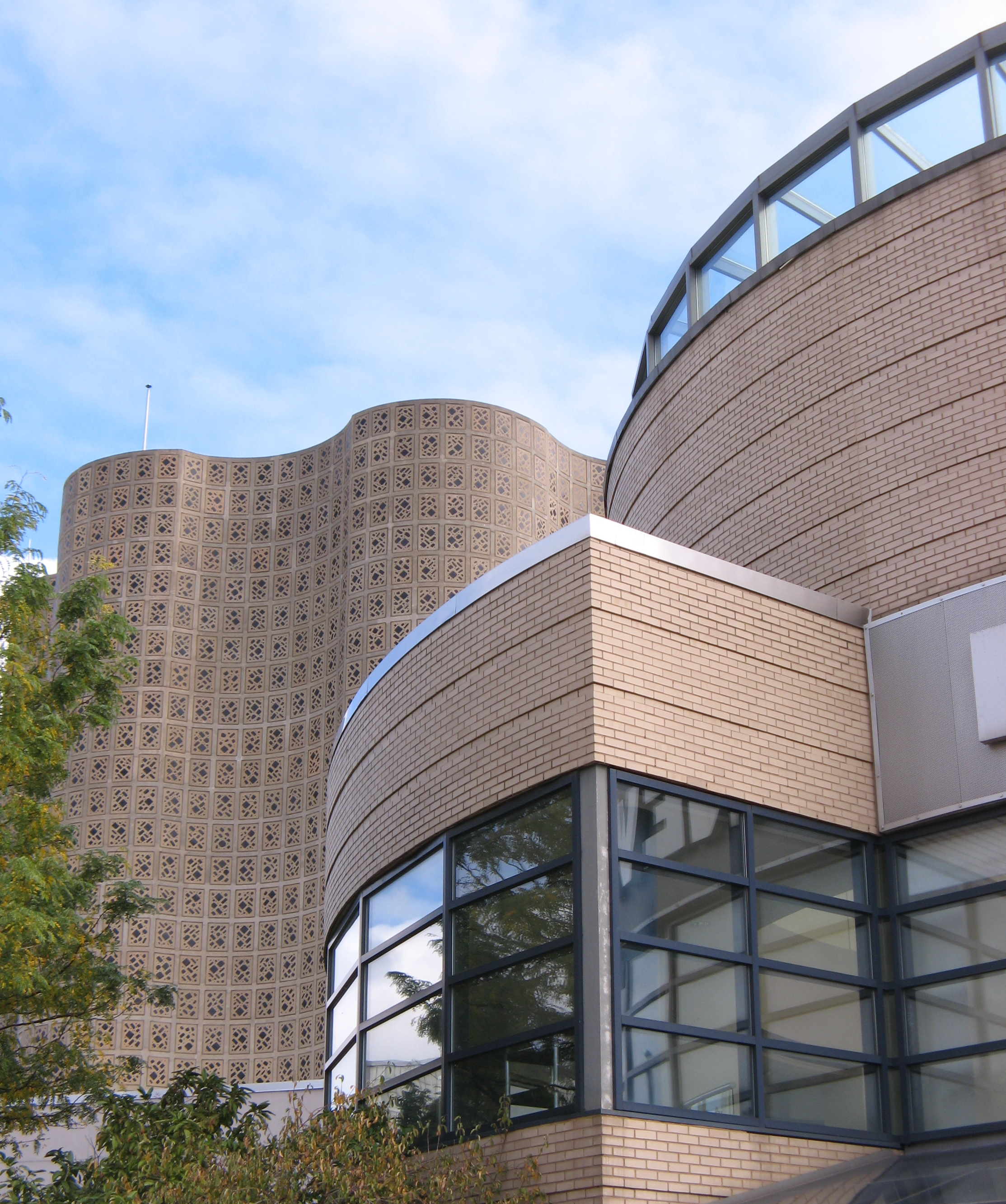 NY HallOfScience- QueensSite: NY HallOfScience- Queens